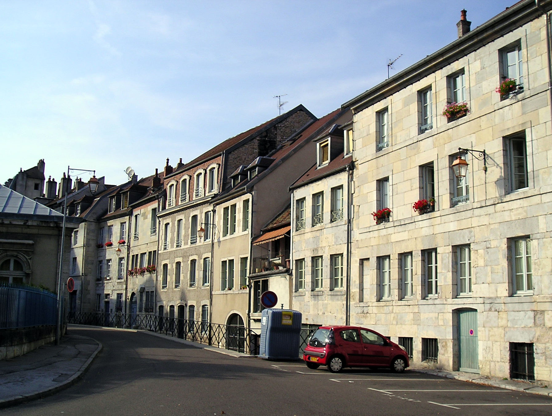 street called rue Champrond in french city of Besançon